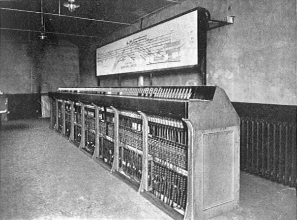 All-Electric Signal Frame, Blackfriars Junction, Southern Railway Photo: Southern Ry. Blackfriars Junction. "Blackfriars Junction signal box with its Westinghouse Brake & Signal Co. Ltd. Style 'L' Power Lever Frame was opened by the Southern Railway on 21st March 1926. The box was fitted with a 120 lever Siemens & General Electric Railway Signal Company power frame and was destroyed by a German bomb dropped in an air raid on the night of the 16th & 17th April 1941." track diagram.